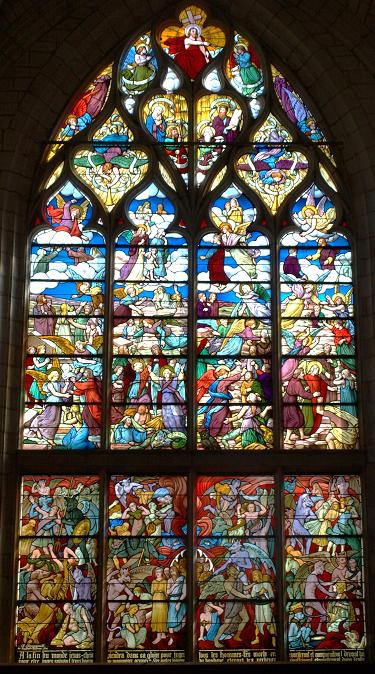 The Last Judgment's Champigneul.